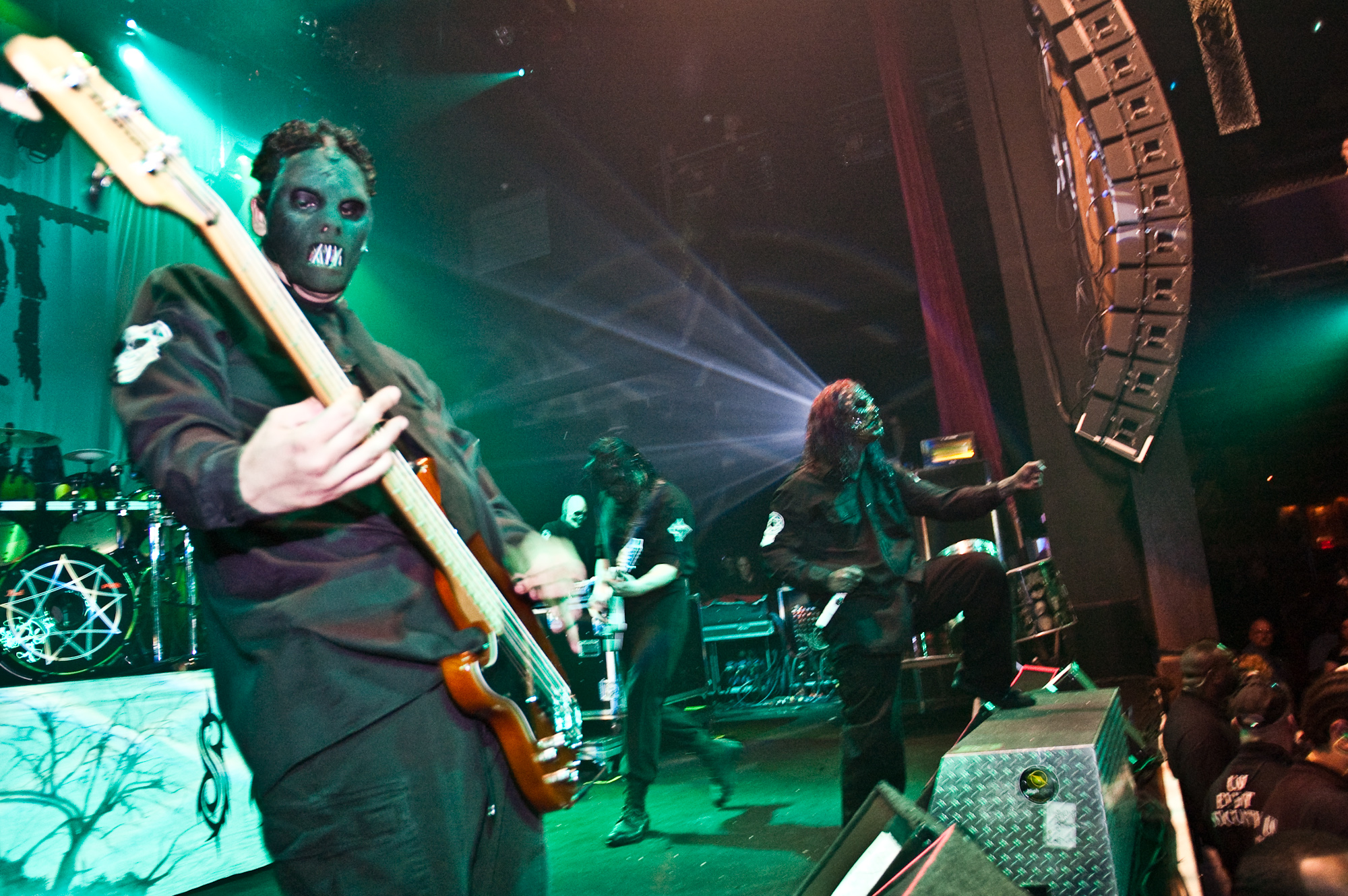 Metal band Slipknot performing live in 2005.